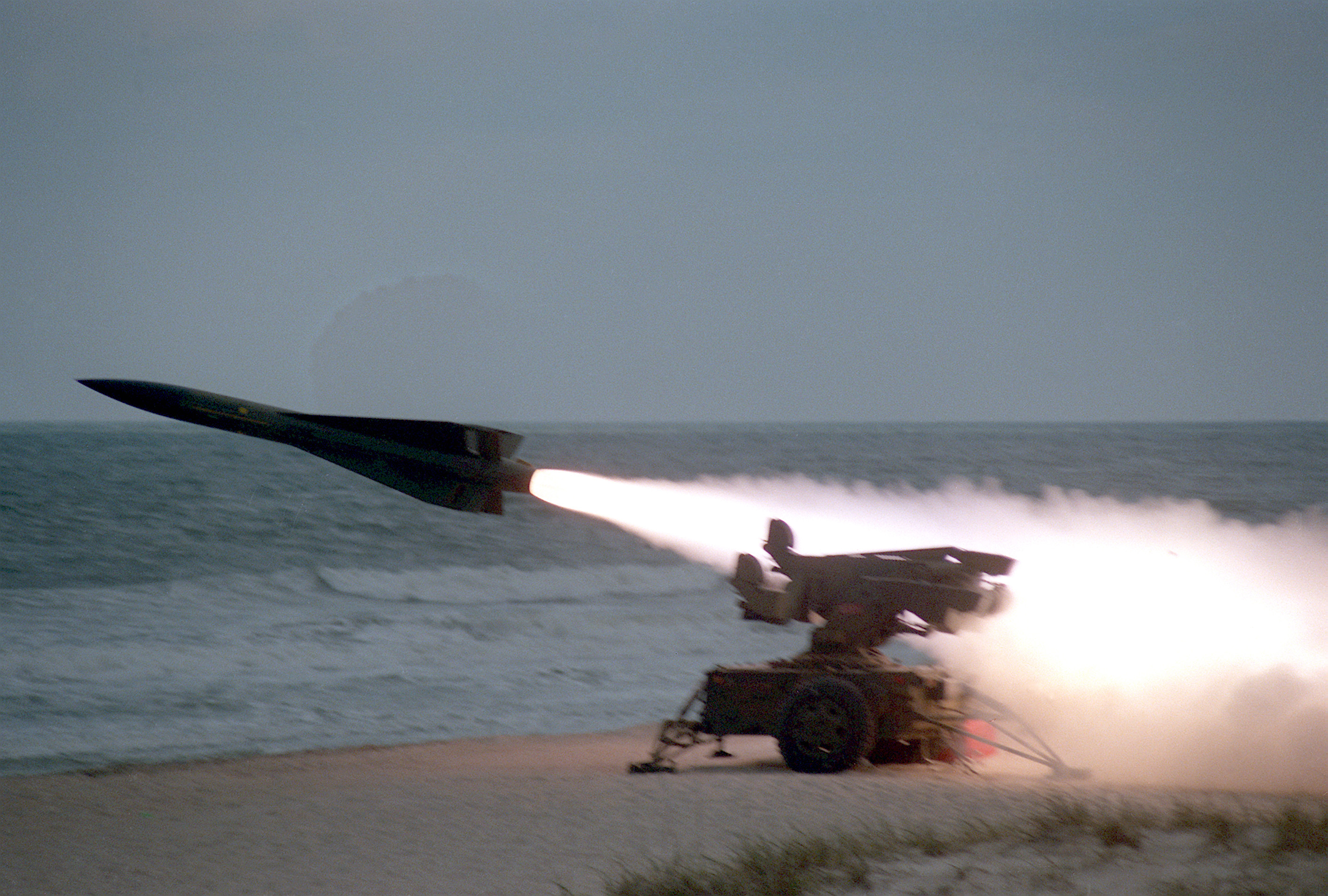 An MIM-23 Hawk missile is fired by the 3rd Light Anti-aircraft Missile Battalion during a training exercise. Location: ONSLOW BEACH, MCB, CAMP LEJEUNE, NORTH CAROLINA (NC) UNITED STATES OF AMERICA (USA)